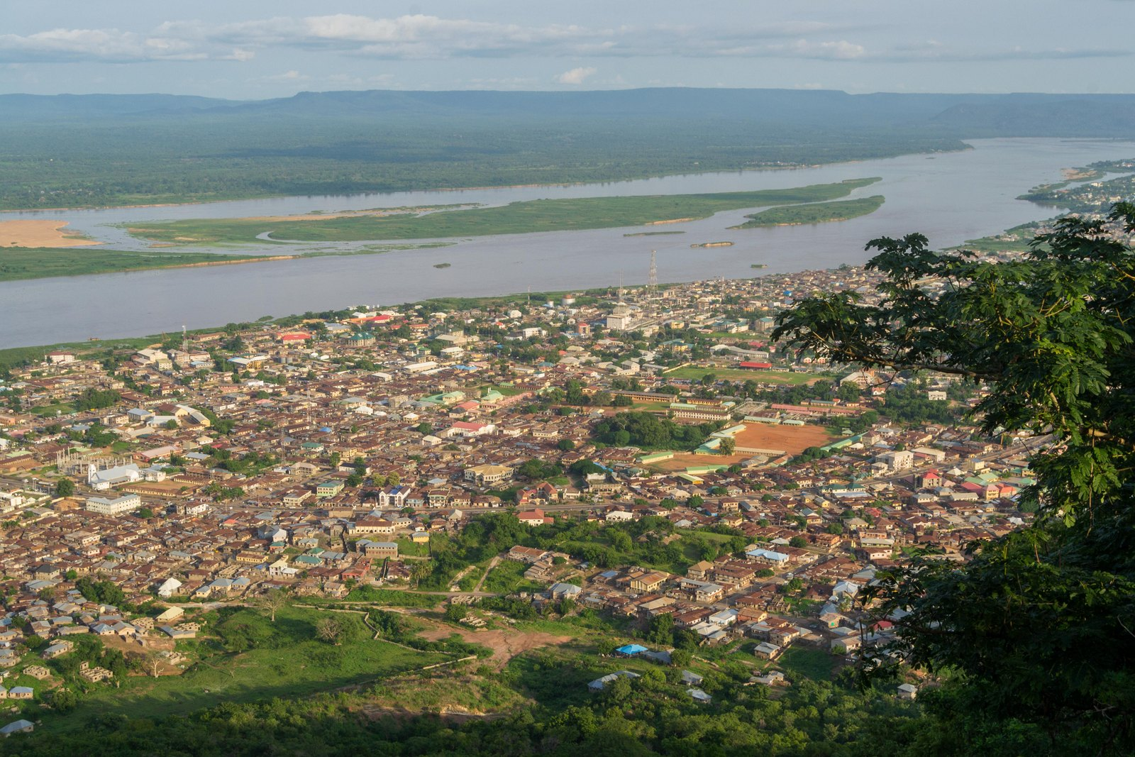 Lokoja in Kogi state as seen from Mt. Patti's summit